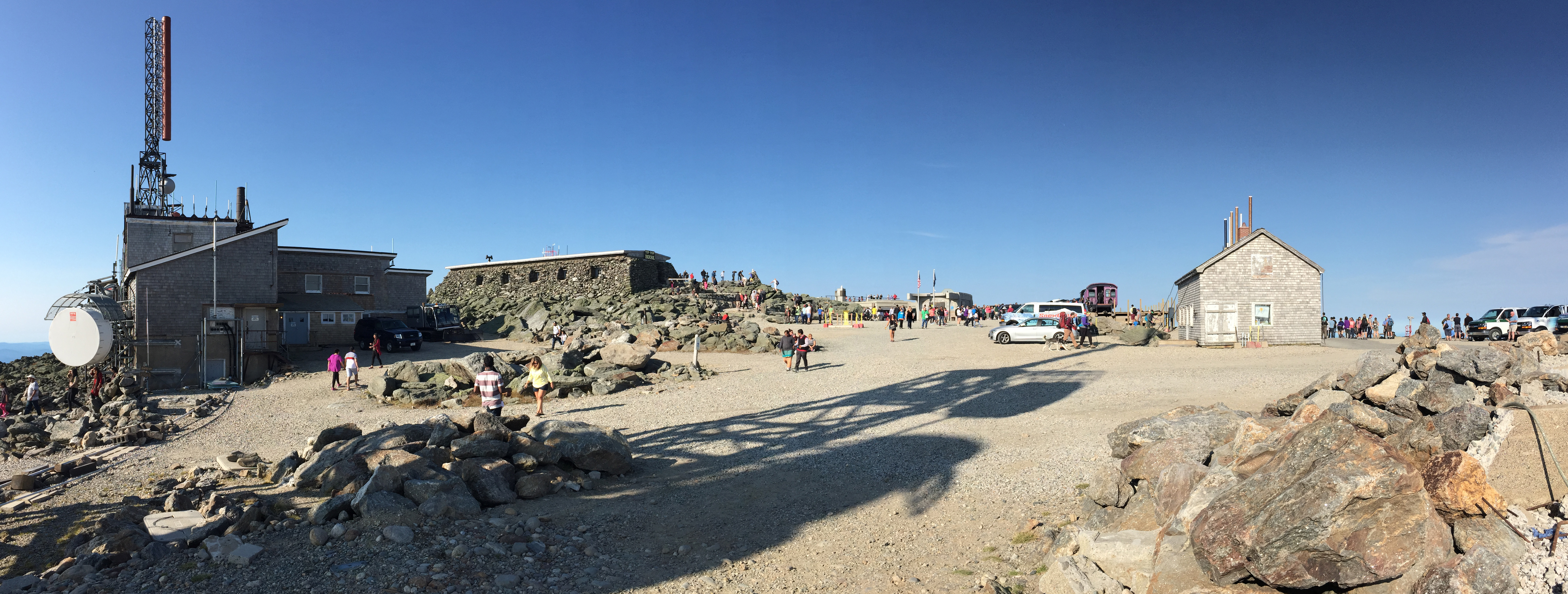 Panorama north across the summit of Mount Washington in Sargent's Purchase Township, Coos County, New Hampshire